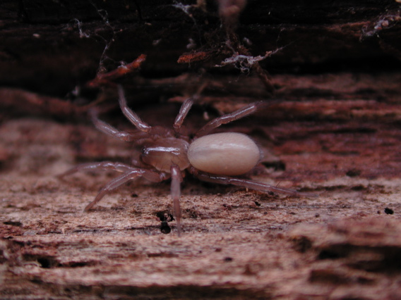 Cicurina sp. (Dictynidae) from the "sky island" mountains of Arizona and New Mexico.